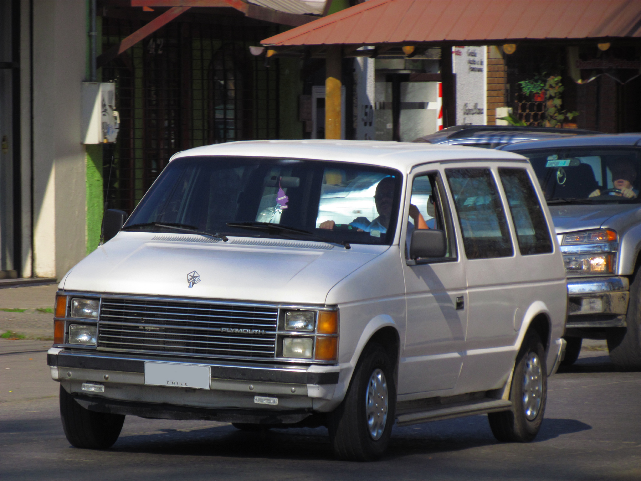 Plymouth Voyager 1987